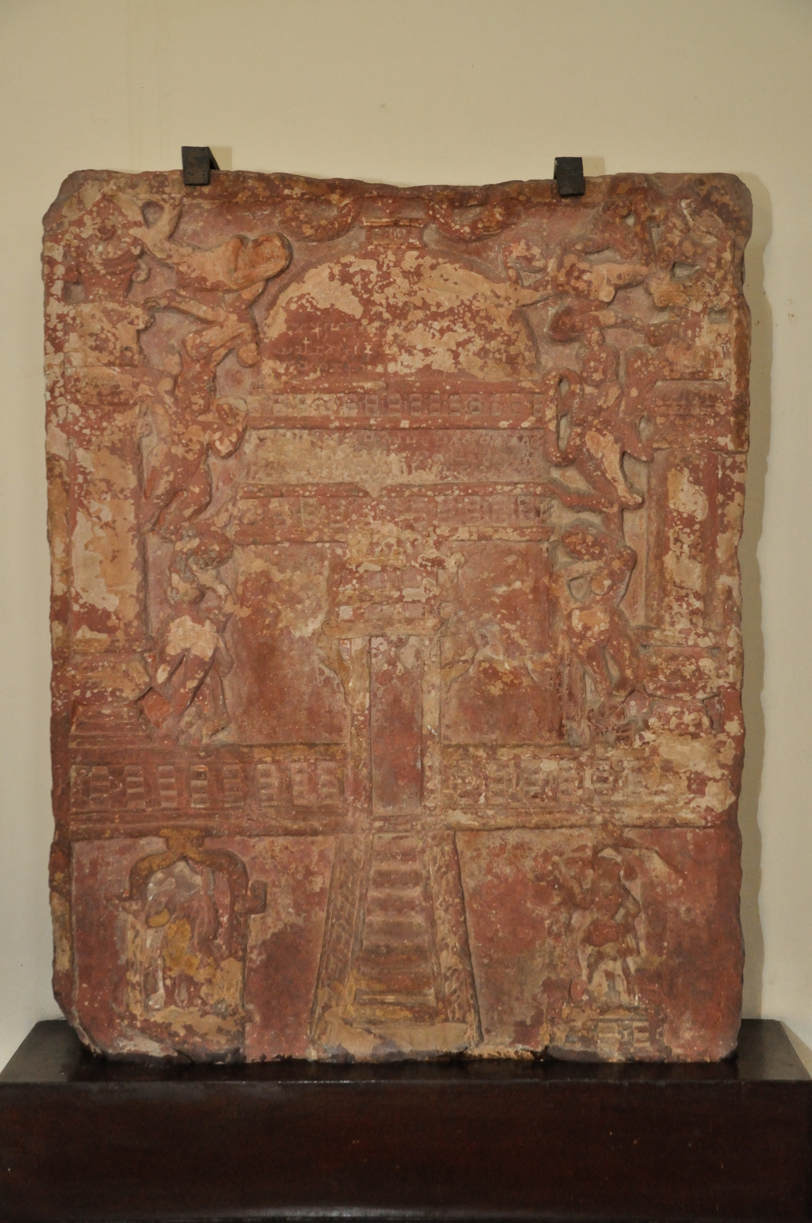 This artefact resides at the Government Museum, (hi: Rashtriya Sangrahalaya) formerly The Curzon Museum of Archaeology, Museum Road or Murari Lal Rajpal road, Dampier Nagar, Mathura, Uttar Pradesh, India. This museum is administrating by the State Government of Uttar Pradesh of India. Incription: " Adoration to the Arhat Vardhamana. The daughter of the matron (?) courtesan Lonasobhika ( Lavanasobhika), the disciple of the ascetics, the junior (?) courtesan Vasu has erected a shrine of the Arhat, a hall of homage (ayagasabha), cistern and a stone slab at the sanctuary of the Nirgrantha Arhats, together with her mother, her daughter, her son and her whole household in honour of the Arhats ." Reference